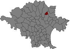 Location of Vilamaniscle in Alt Empordà